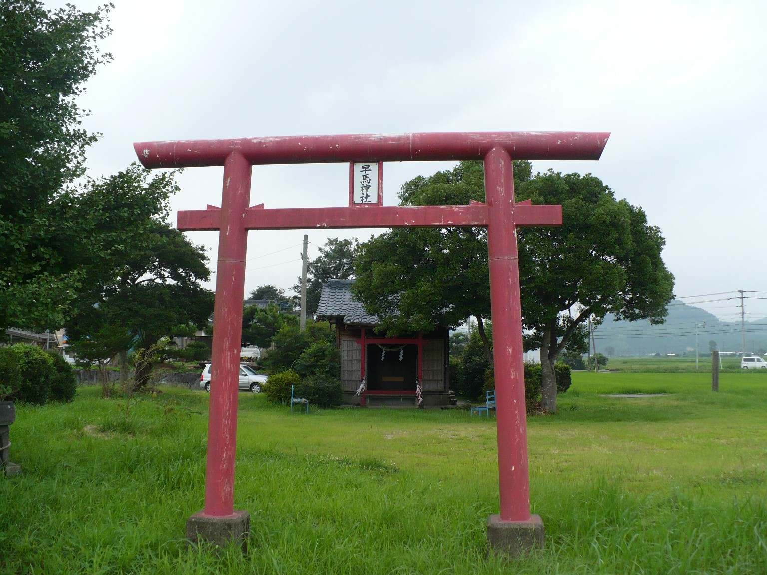 Hayama shrine, Aira, Kagoshima, Japan.